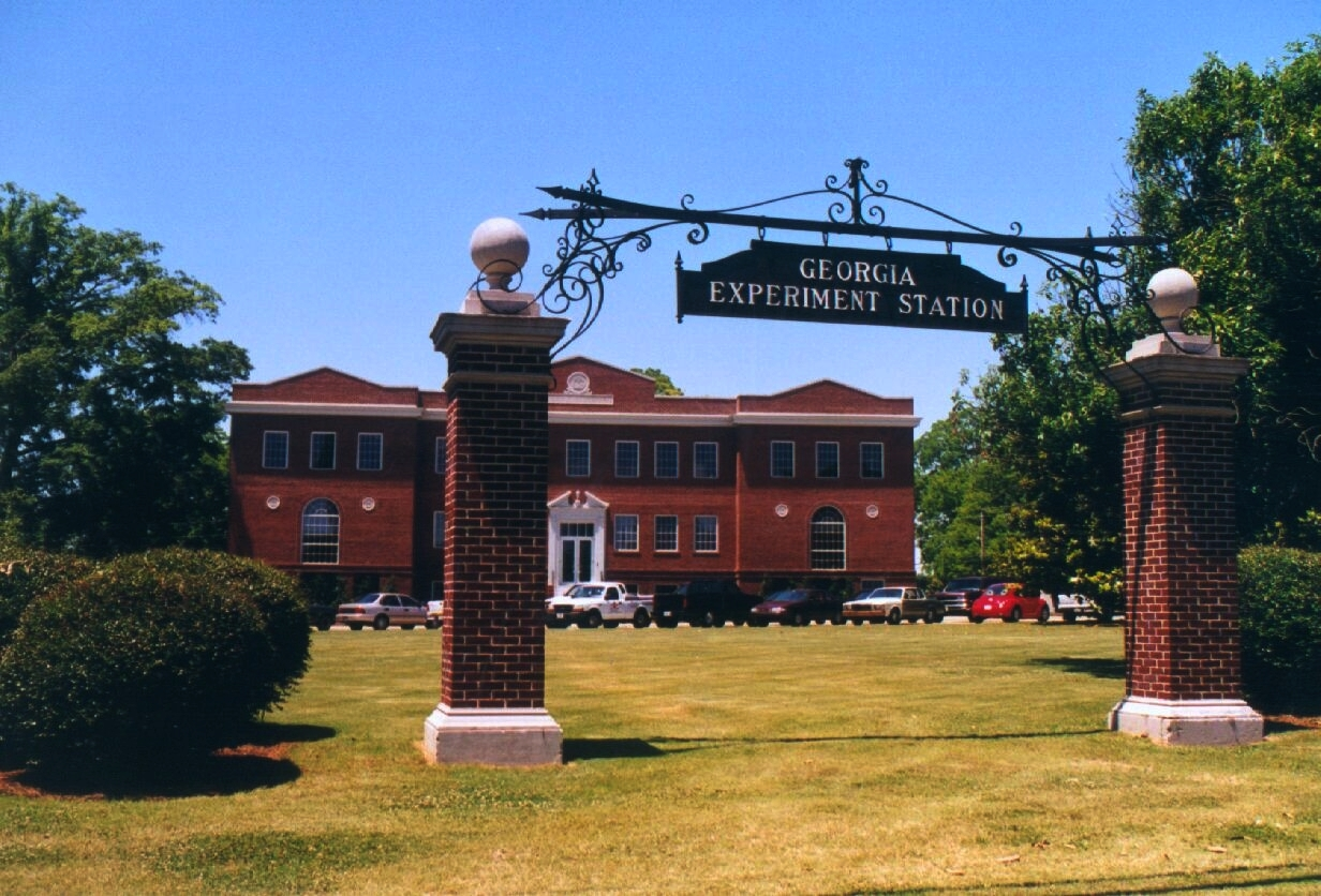 Gate of Experiment Station of UGA in Griffin